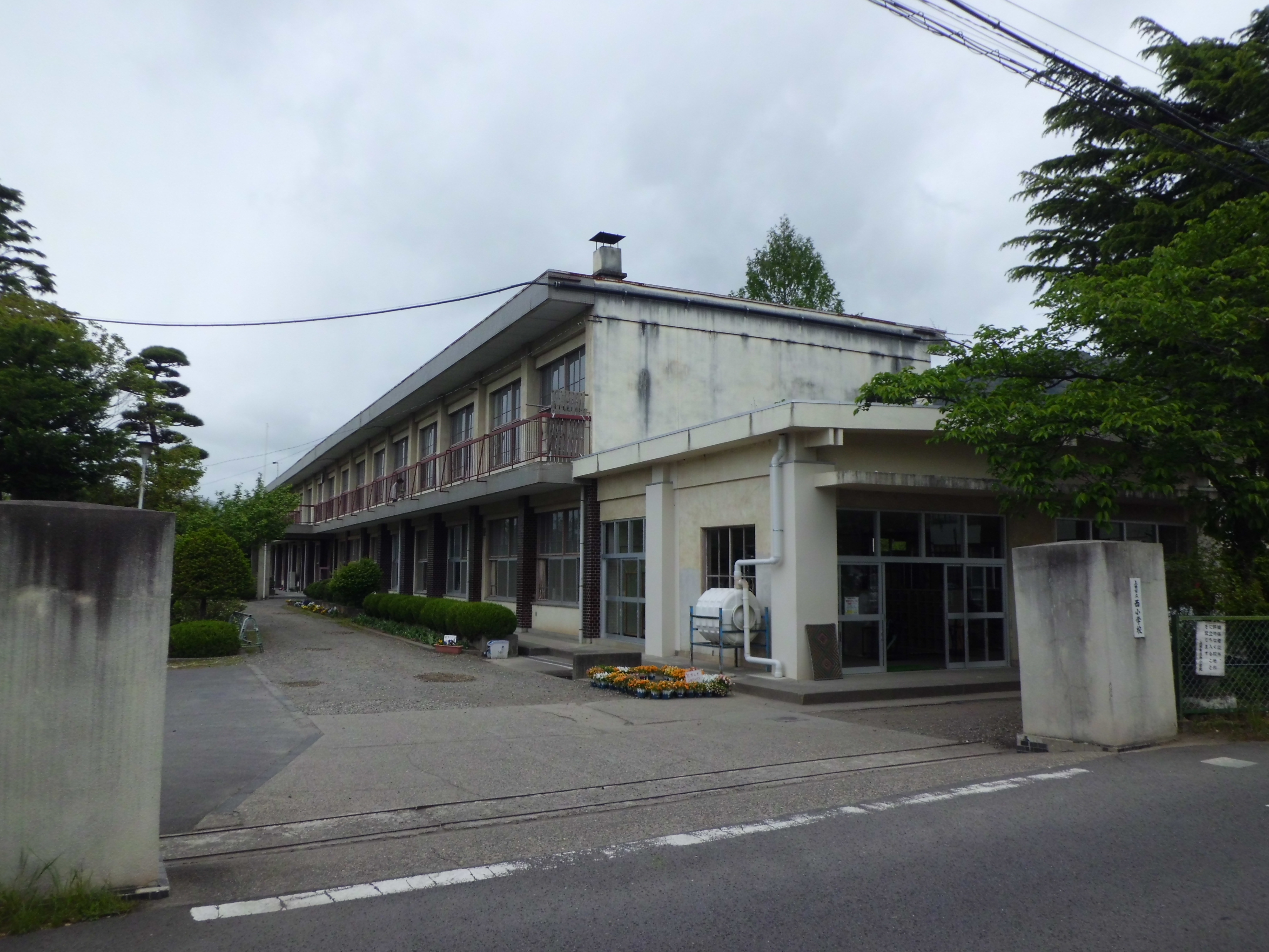 Nishi Elementary School in Ueda city, Nagano prefecture, Japan.